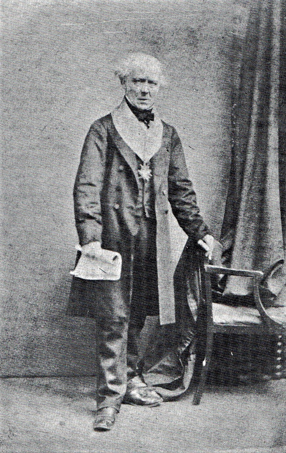 David Hodgson, standing with his left foot in front of his right, wearing a medal or order round his neck, with his right hand on the back of a chair beside him and his left hand holding a rolled up piece of paper